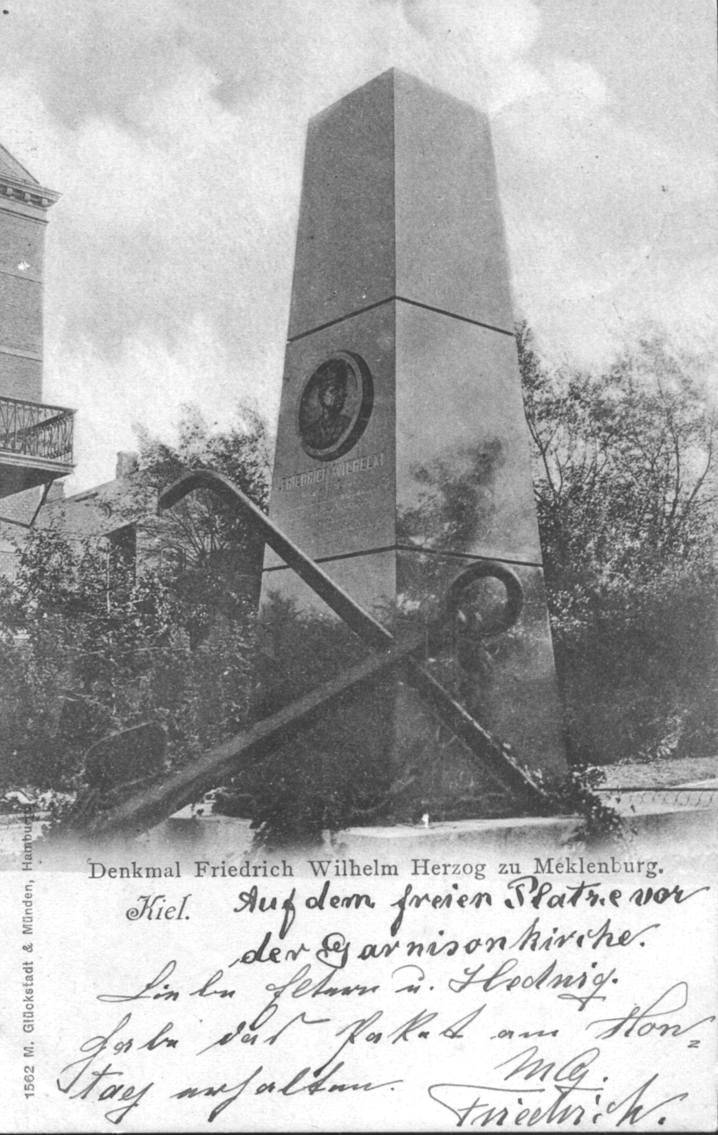 monument of Duke Friedrich Wilhelm of Mecklenburg-Schwerin in Kiel, sculpted by Ludwig Brunow 1898